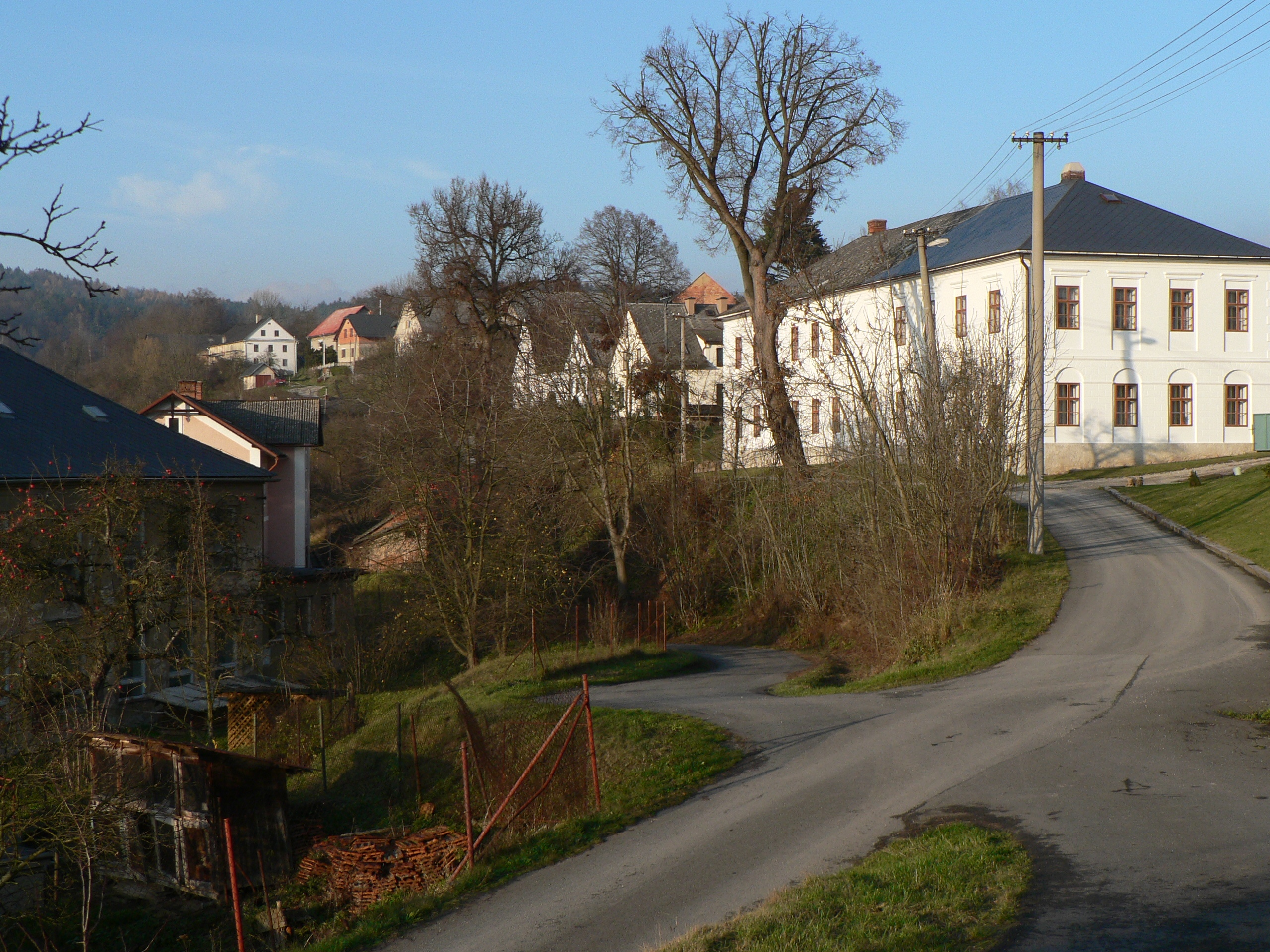 Dlouhomilov, Šumperk District, Czechia.